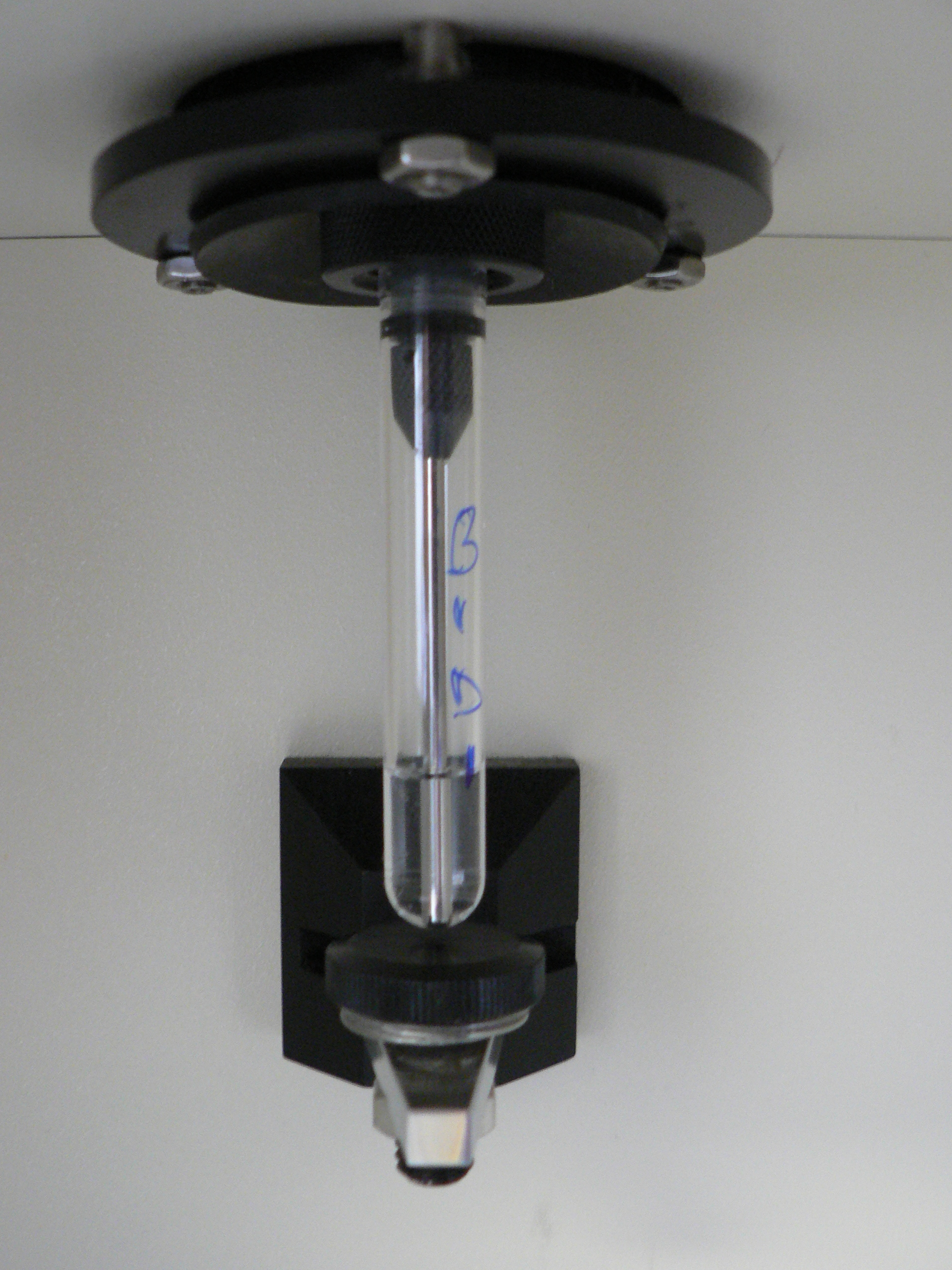 flow cytometer tube with suction straw